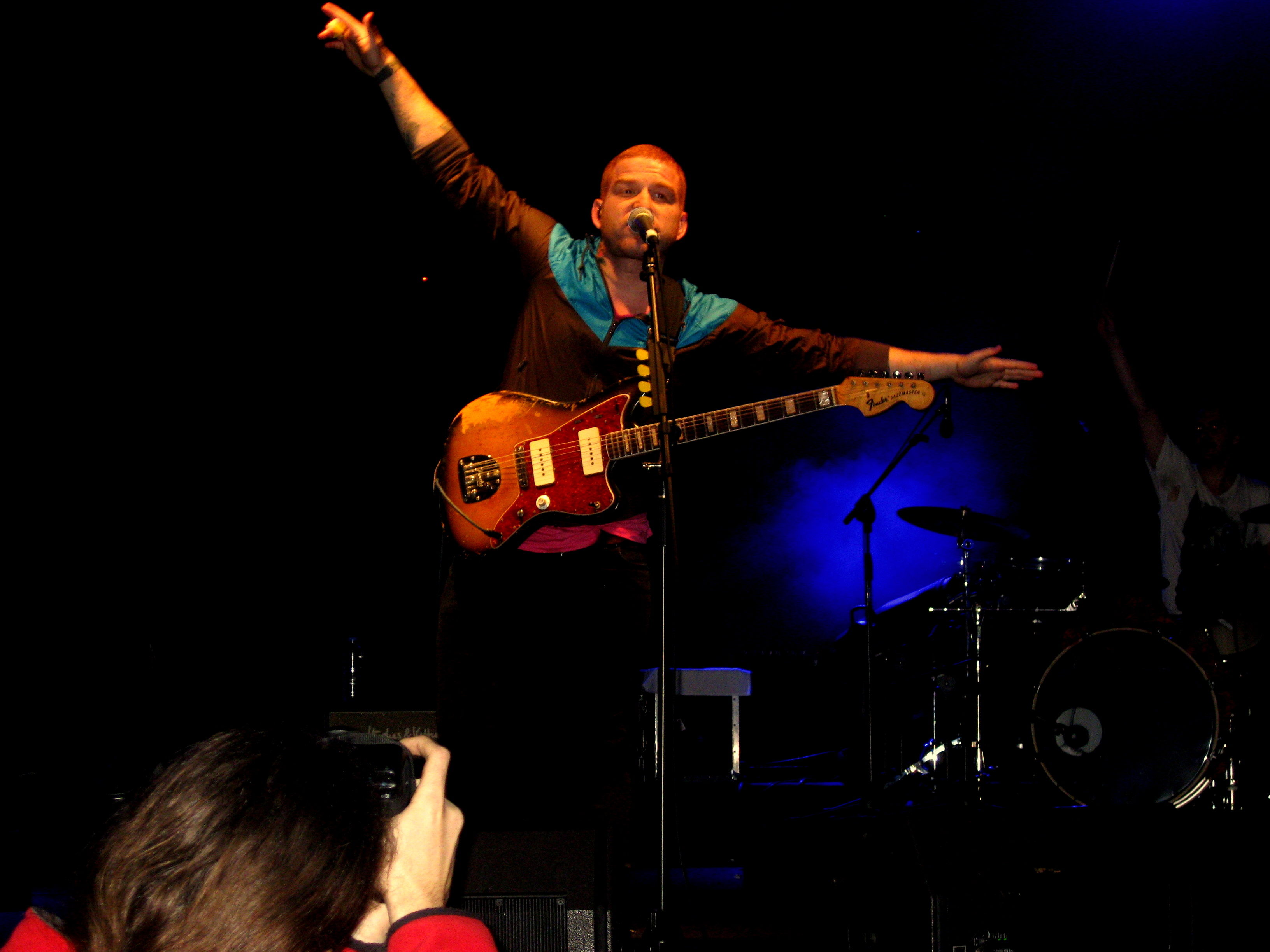 Vocalist of the Athena Band,Gökhan Özoğuz.